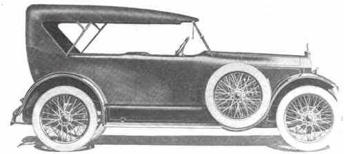 This was the first American car featuring four wheel Brakes, predating the Kenworthy and Duesenberg by four years. Was made in very limited numbers 1916-1917.